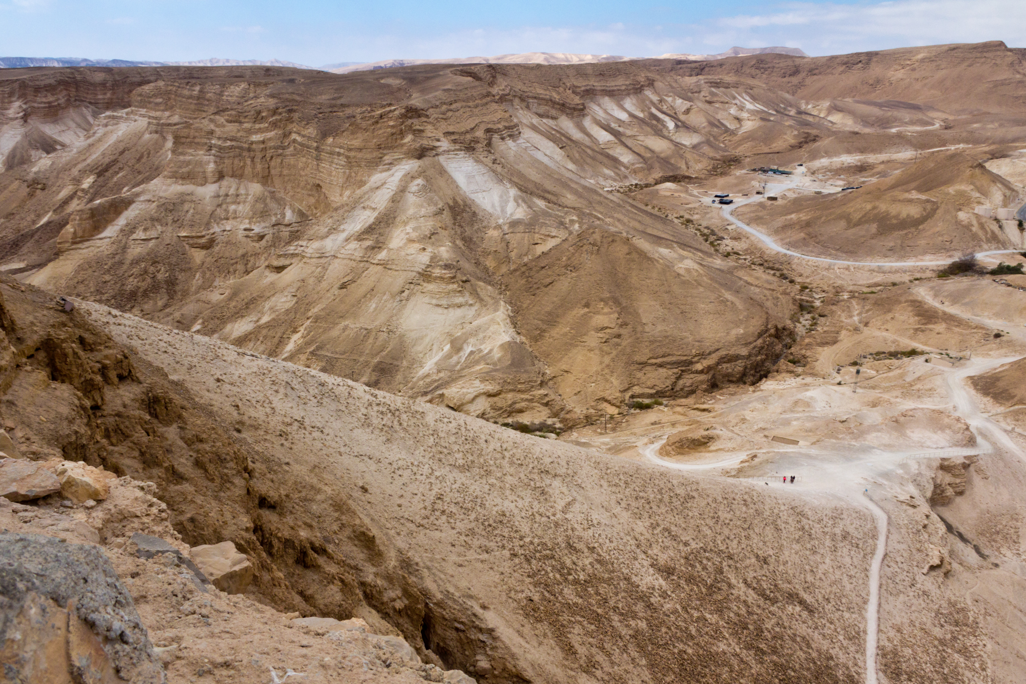 Roman siege ramp at Masada